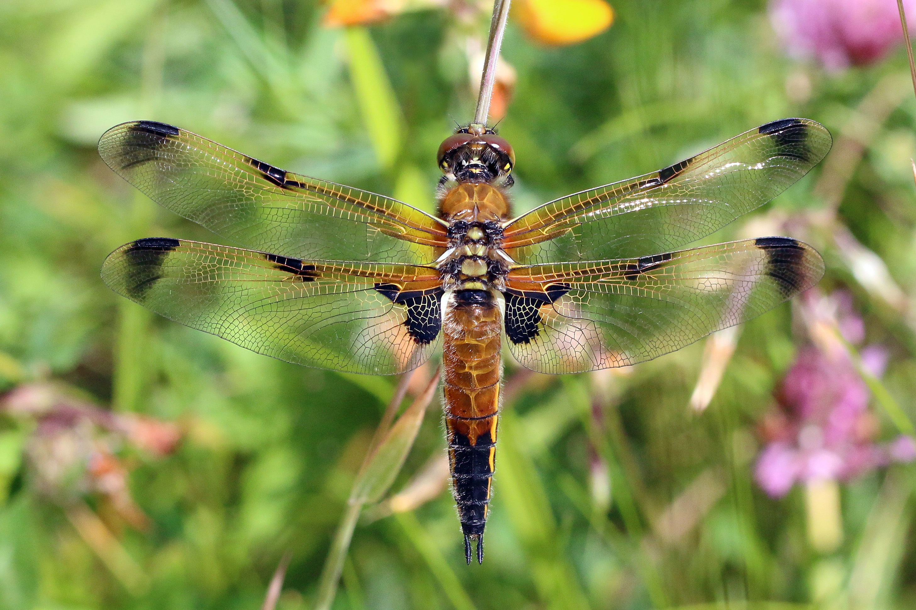 Four-spotted chaser (Libellula quadrimaculata) female, variant praenubila, Whitecross Green Wood, Oxfordshire